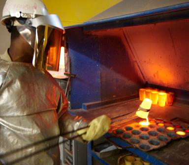 Melted gold at the Rosebel Mine in Suriname